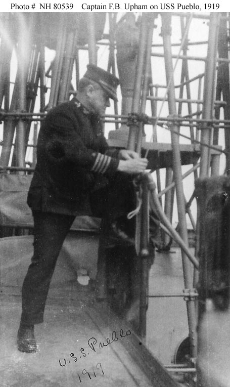 Admiral Frank B. Upham as a Captain from [1]